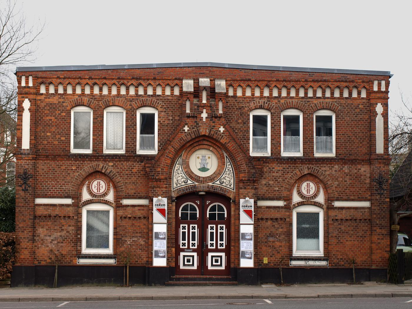 Pinneberg, Schleswig-Holstein (Germany), Paasch hall, photo 2011, since 2016 cultural monument